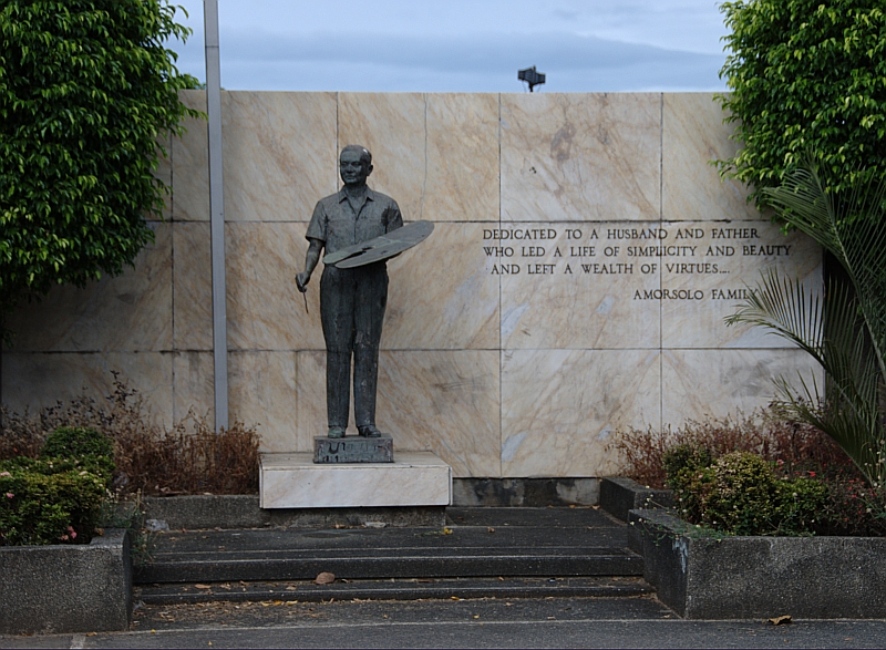 Memorial of Filipino painter and National Artist Fernando Amorsolo located near his tomb in Marikina City